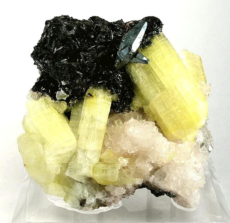 Ettringite, Hematite, Gaudefroyite, Calcite Locality: N'Chwaning II Mine, N'Chwaning Mines, Kuruman, Kalahari manganese fields, Northern Cape Province, South Africa (Locality at ) Size: 10 x 8 x 4 cm. An incredible, beautiful combination specimen featuring two large ettringite crystals of lemon yellow hue perched on sparkling and contrasting crystallized white calcite and gaudefroyite, further accented by a hematite crystal atop. The hematite is striking, and is 2.25 cm long and doubly terminated, scalenohedral in form. The ettringite crystals are to 4.5 cm in length and shimmer with electric sheen on the surface, and have deep color that does not convey well in the photo. This is a very rare, large example of the species in super aesthetic form. It was found in the mid to late 1980s. Ex. Charlie Key.